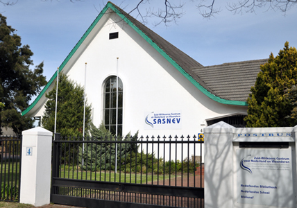 The building which houses the Biblionef offices.